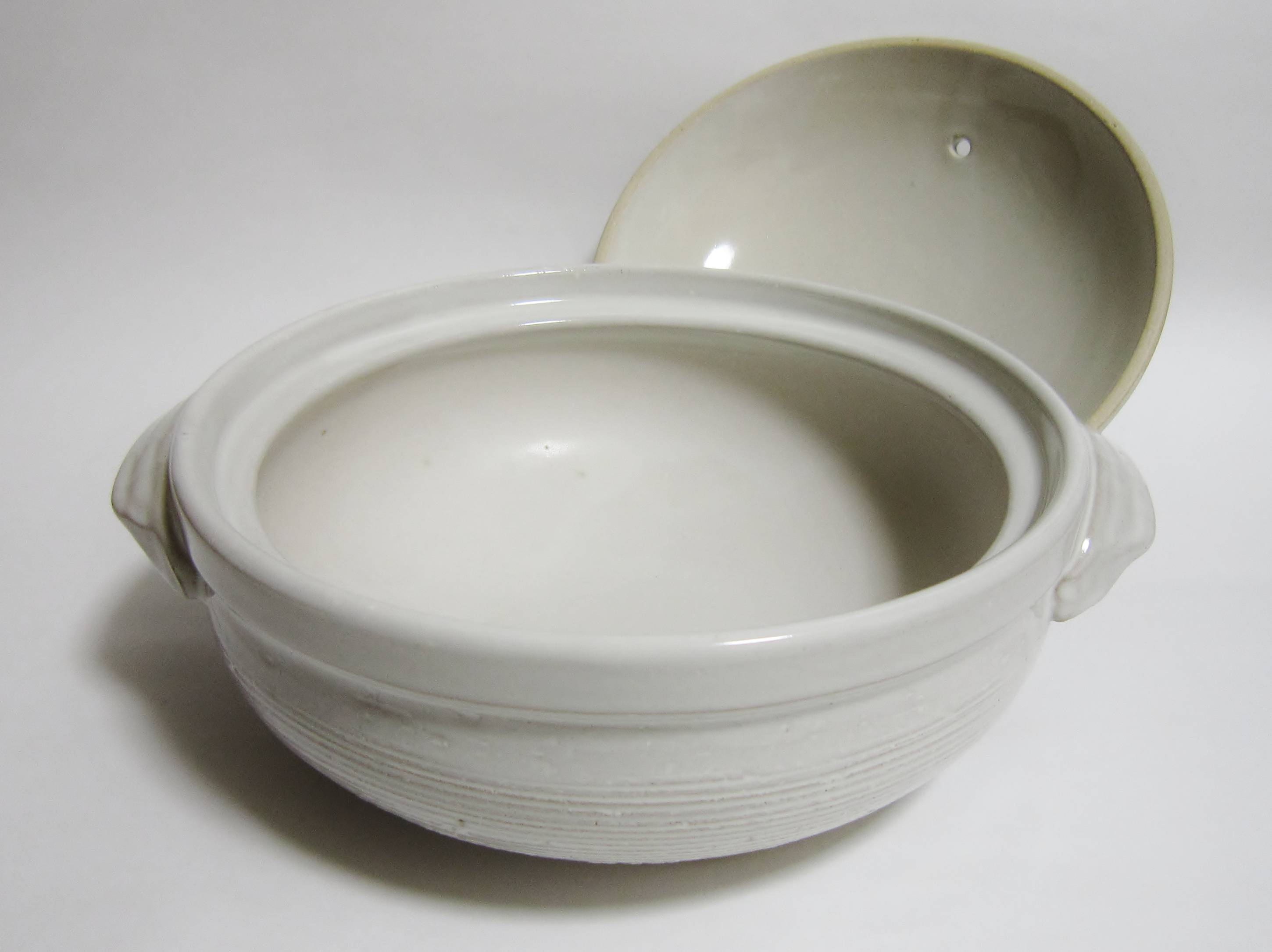 Cainz Donabe 'Hakusen-nagashi' φ19cm.